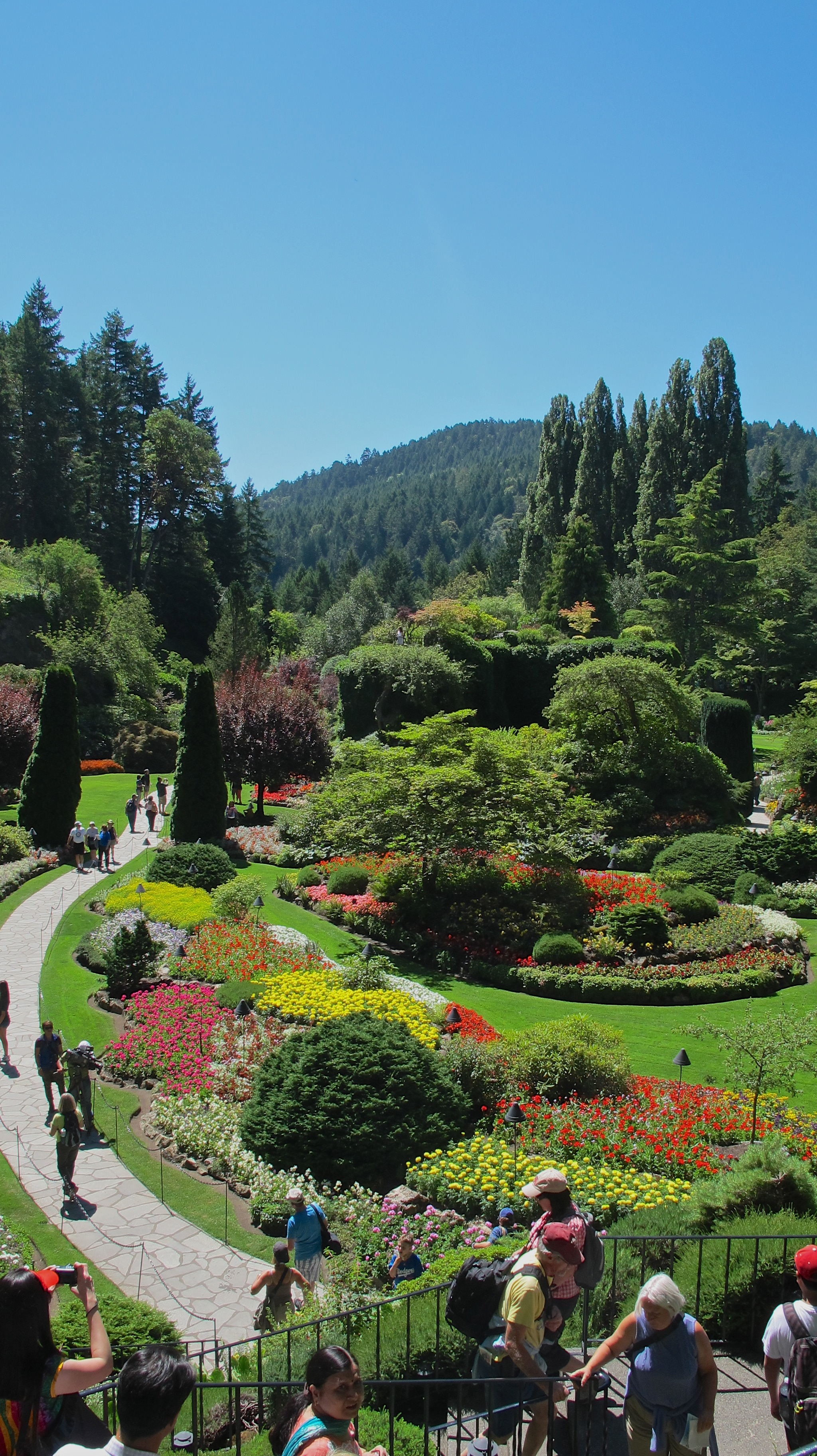 Sunken Garden in Butchart Gardens - Vancouver Island, Canada